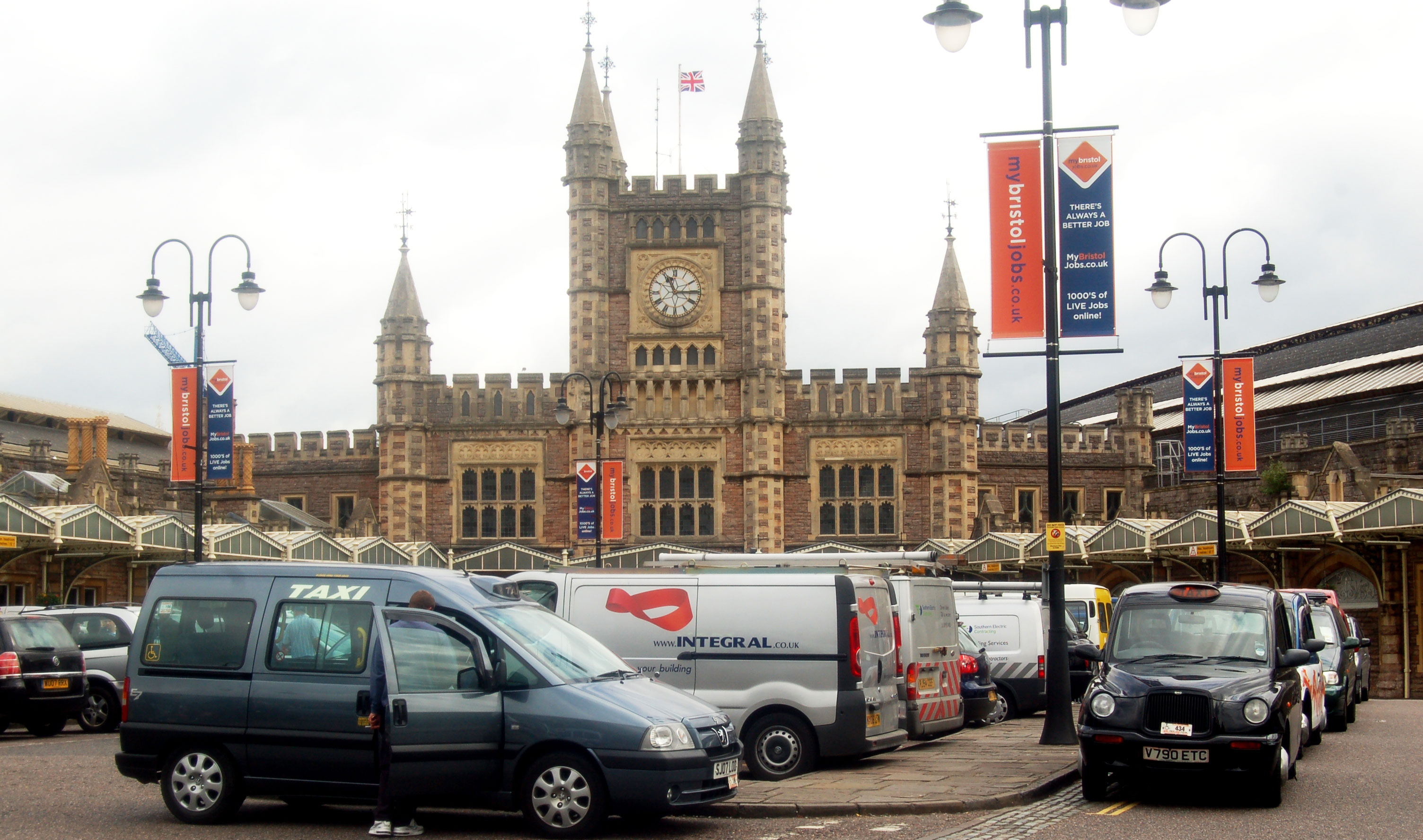 View across the car-park to Bristol Temple Meads railway station. Shows the pennant advertising of My Bristol Jobs.